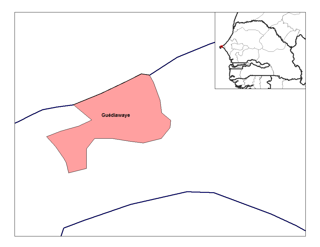 Map of the arrondissements of Guediawaye department in Senegal.